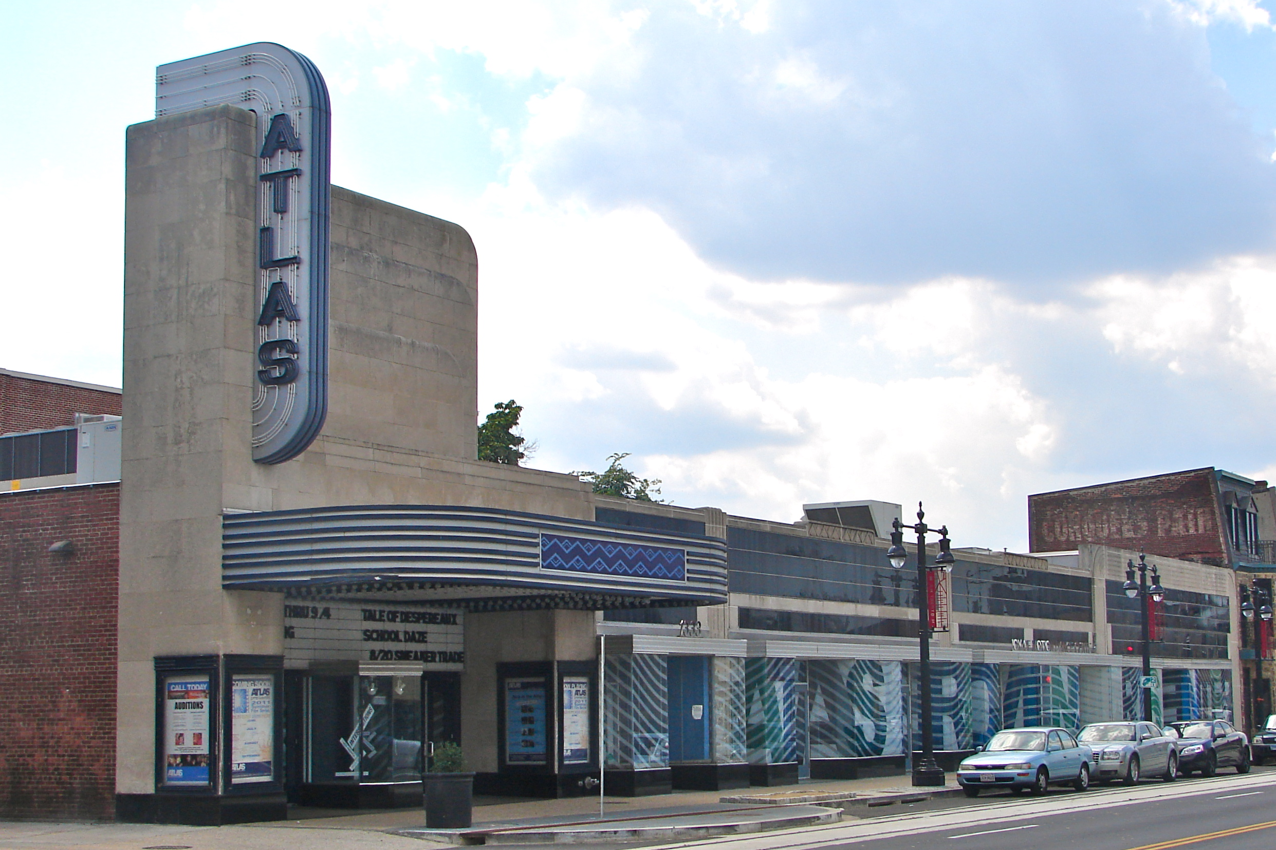 Atlas Theater and Shops on the NRHP since November 10, 2010 at 1313-33 H Street, NE, Washington, D.C. USA 38°53′59″N 76°59′15″W